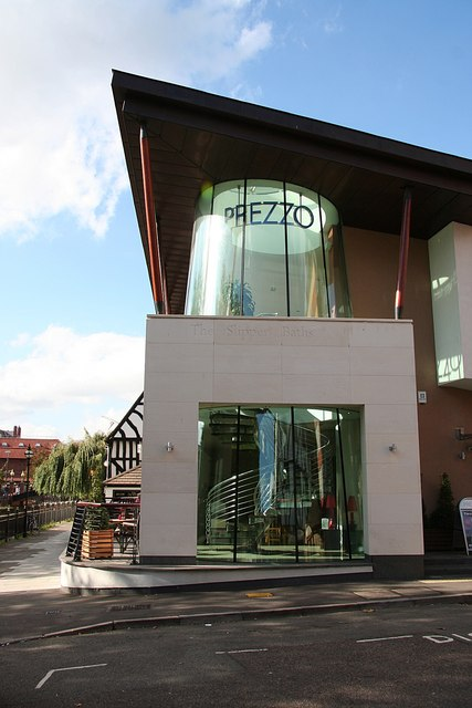 Prezzo Bistro restaurant on Waterside north